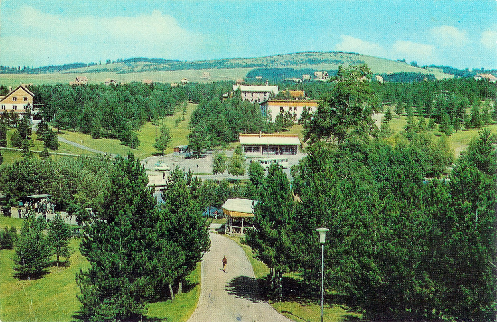 Zlatibor 1968